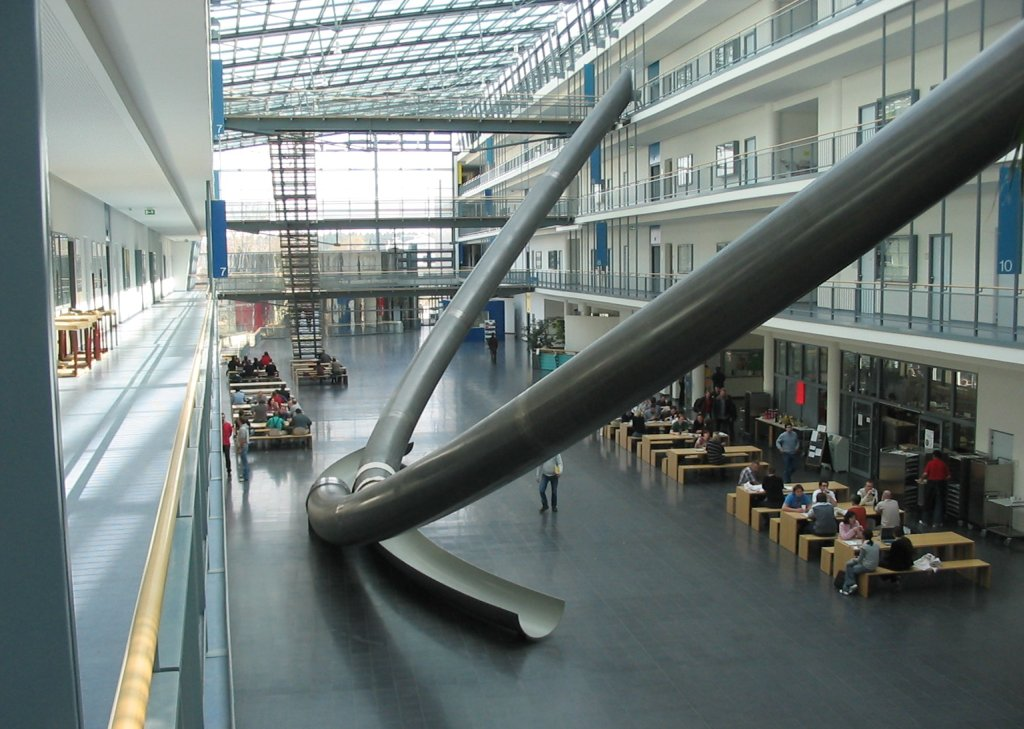 Interior view of the faculty for mathematics and computer science's main building (FMI building) at the Garching campus of Technische Universität München (TUM, Technical University of Munich), featuring the artwork Brunner / Ritz: Parabel, 2002 (aka “parabolic slides”). Formula: z = y = h x²/d². Background information: According to German law, a certain fraction of the budget for erecting a state-owned building has to be spent on “architectural art” (German Kunst am Bau)—which, in the case of the FMI building, are the two huge slides you can see in the picture. The slides are open to visitors; the sliding pads that are absolutely required for using the slide (warning: there is a retarding coating inside the tubes!) usually are placed over the exit holes of the tubes (difficult to make out on the picture). März 2005.